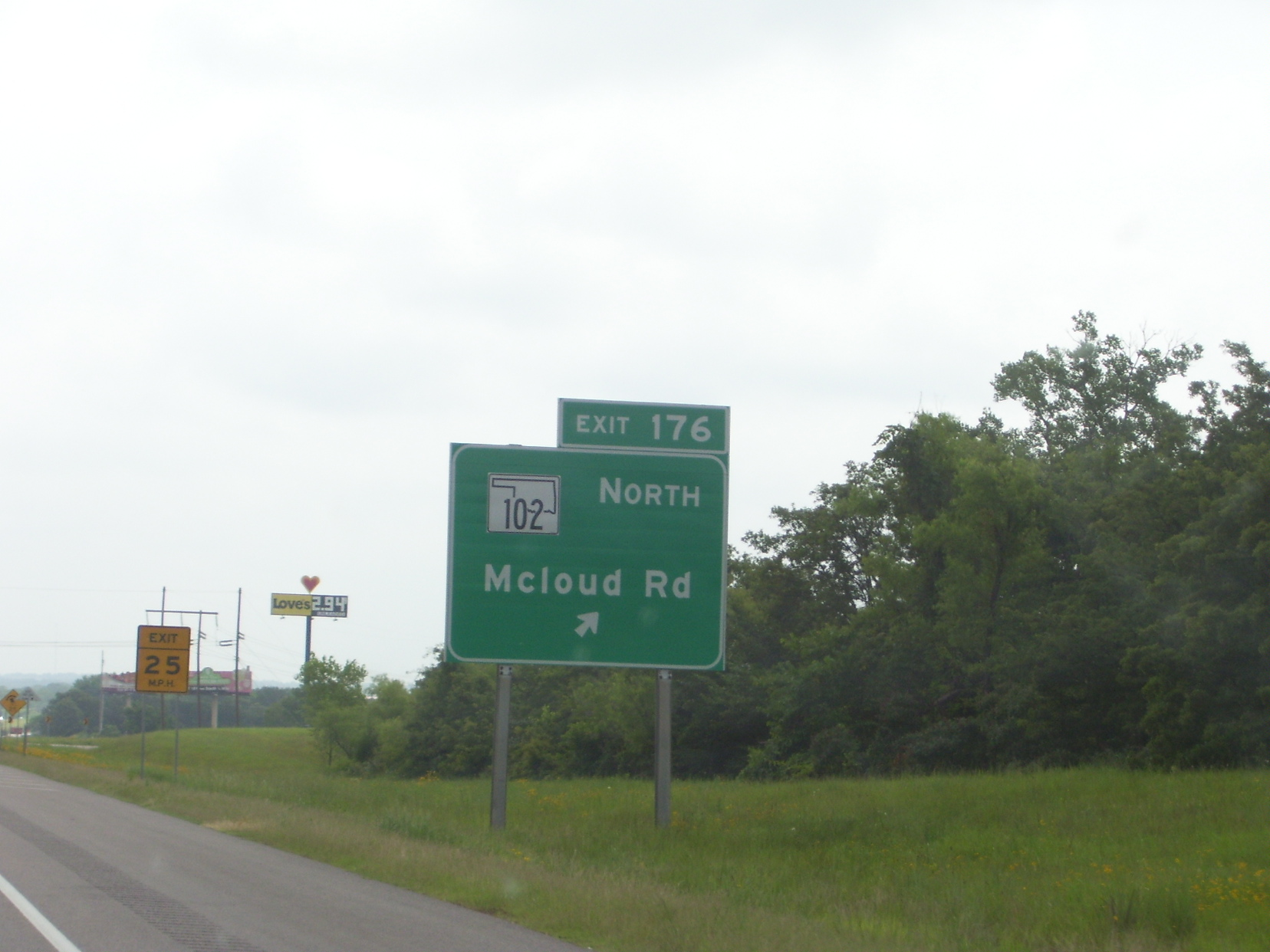 The SH-102 northbound exit from I-40 eastbound near McLoud, Oklahoma. Note the mis-capitalization of "McLoud".